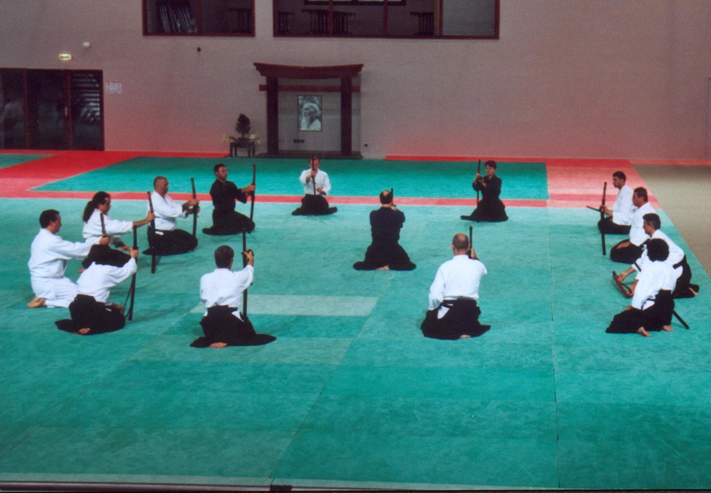 Iaido beginners learning the reishiki (etiquette): salute to the sword (Lesneven aikido's international training), Muso shinden ryu